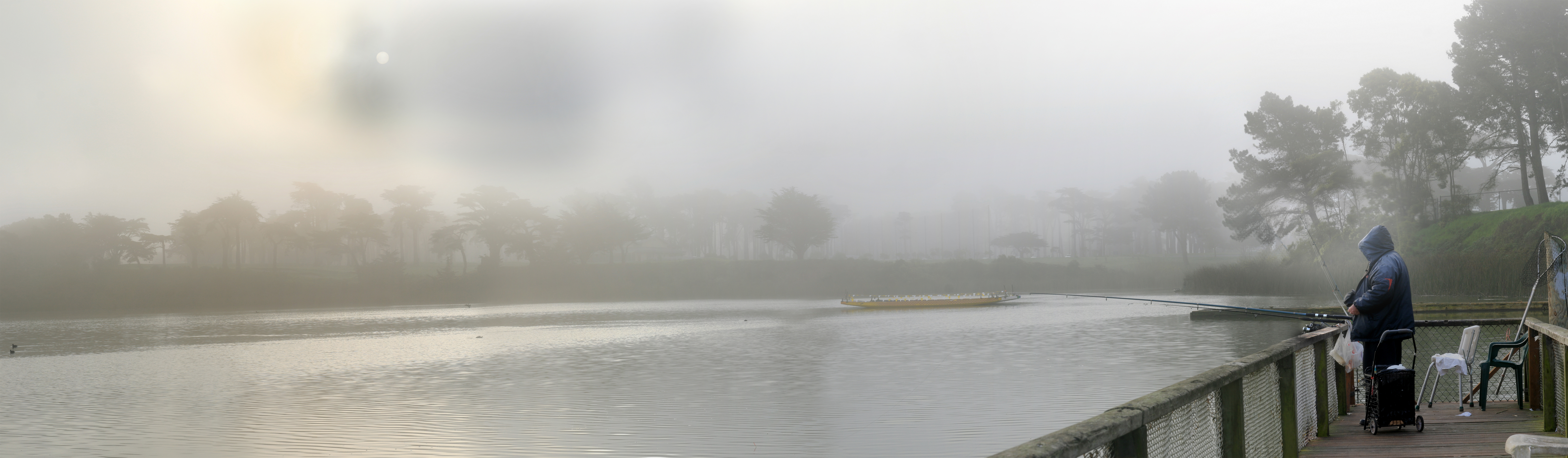 Foggy morning at Lake Merced with a dragon boat in the back.